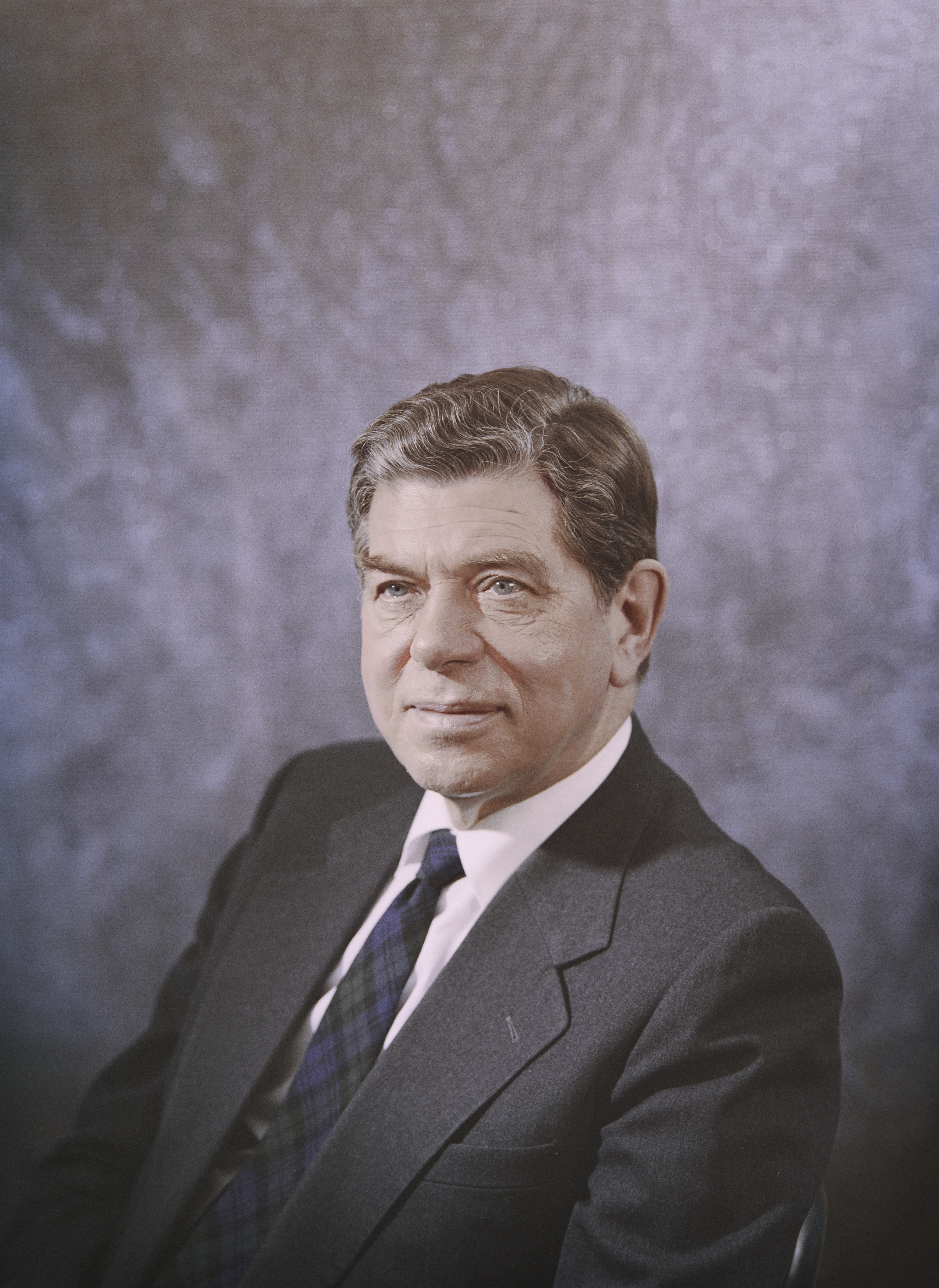 Photograph of the Finnish physician Nils Oker-Blom (1919–1995).